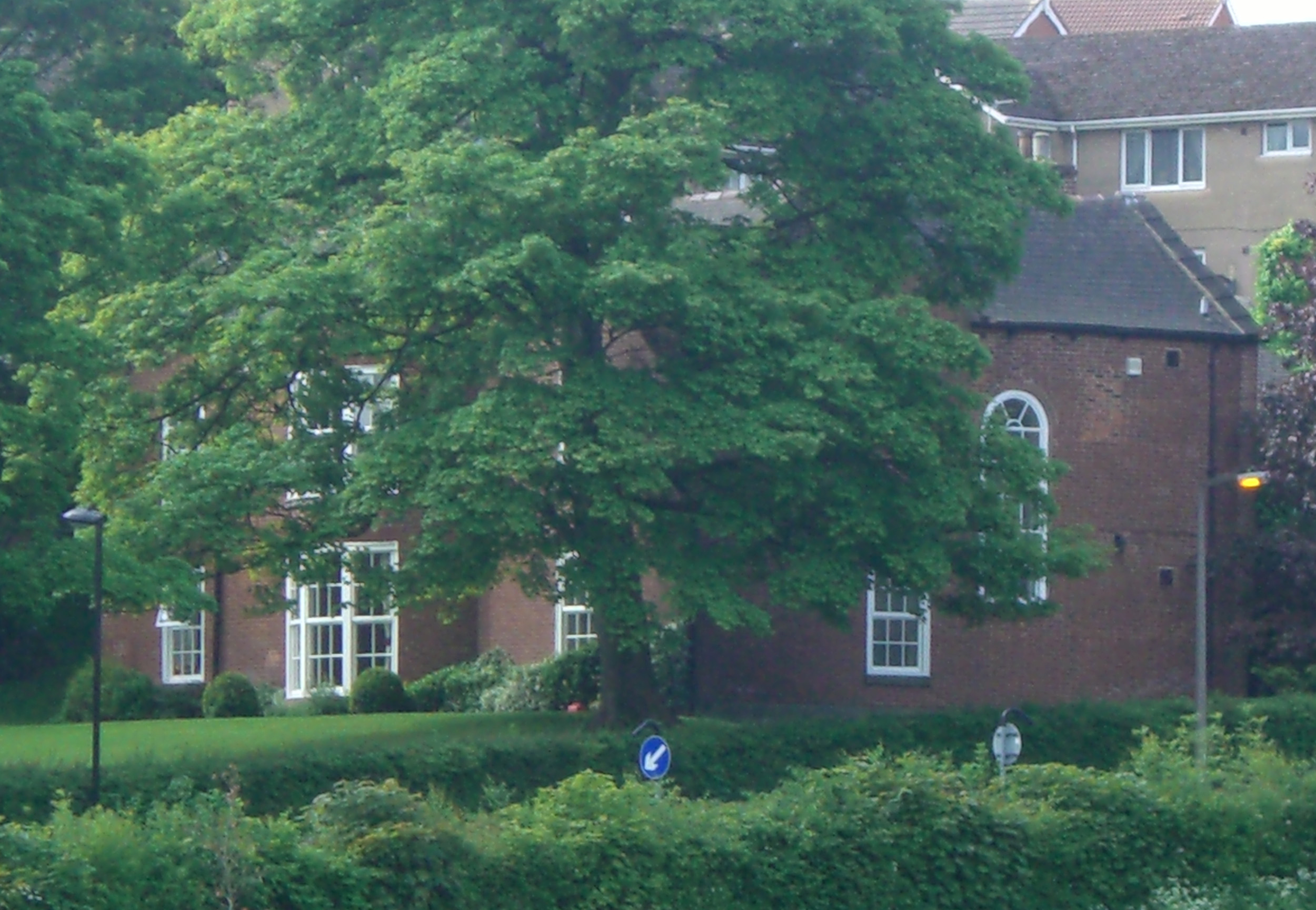 Longley Hall on Longley Lane in the district of Longley in Sheffield, South Yorkshire, England.